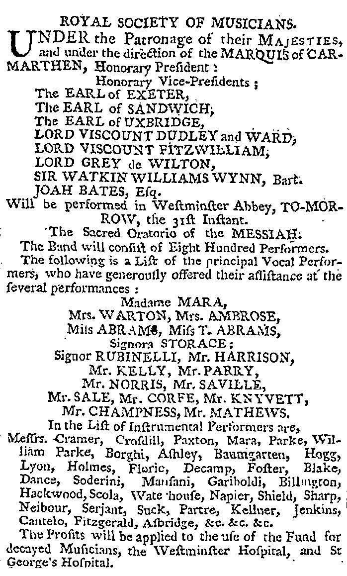 Extracts from press advertisement for a performance of Messiah at Westminster Abbey